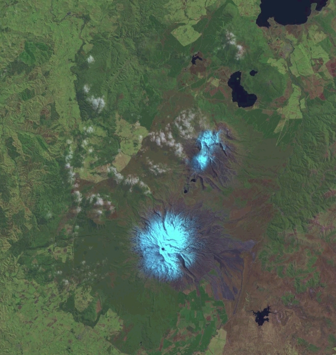 Landsat 7 (Pseudo Color) satellite picture of Tongariro National Park showing (from top to bottom) a part of Lake Taupo, Lake Rotoaira, snow-covered mountains Tongariro, Ngauruhoe and Ruapehu.